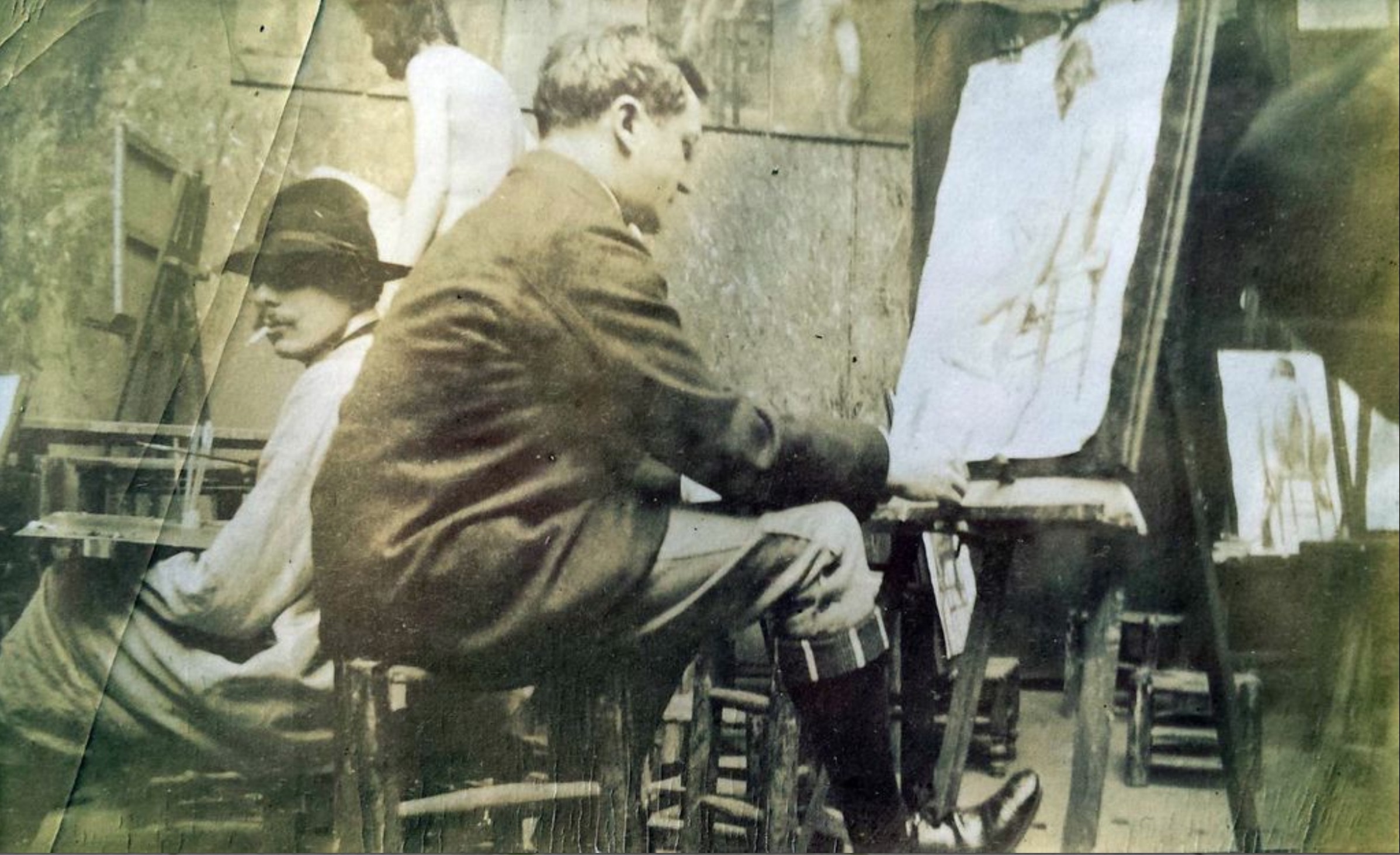 Artist and journalist Rob Wagner training at the Académie Julian in 1903.